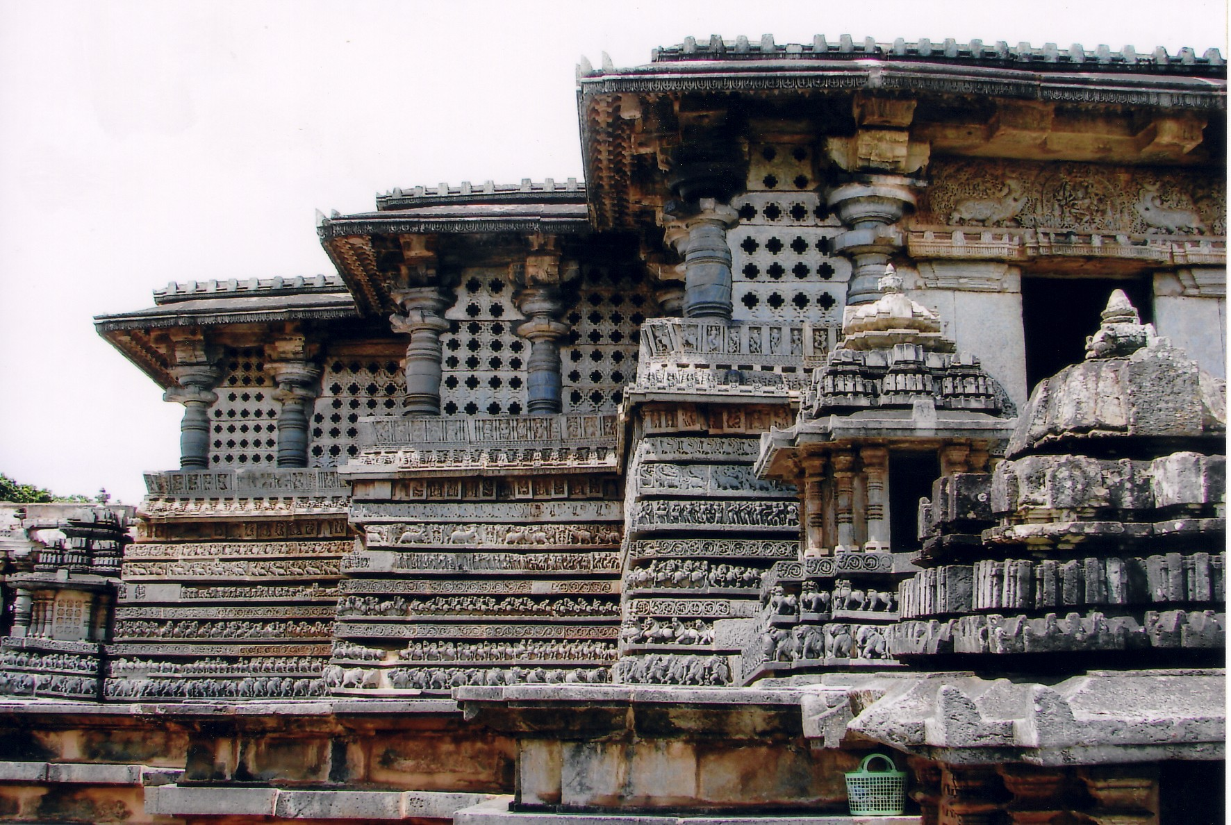 Photograph taken by self (Dinesh Kannambadi) at Hoysaleshvara temple in Halebidu (also spelt Hoysaleshwara or Hoysalesvara), Karnataka, India